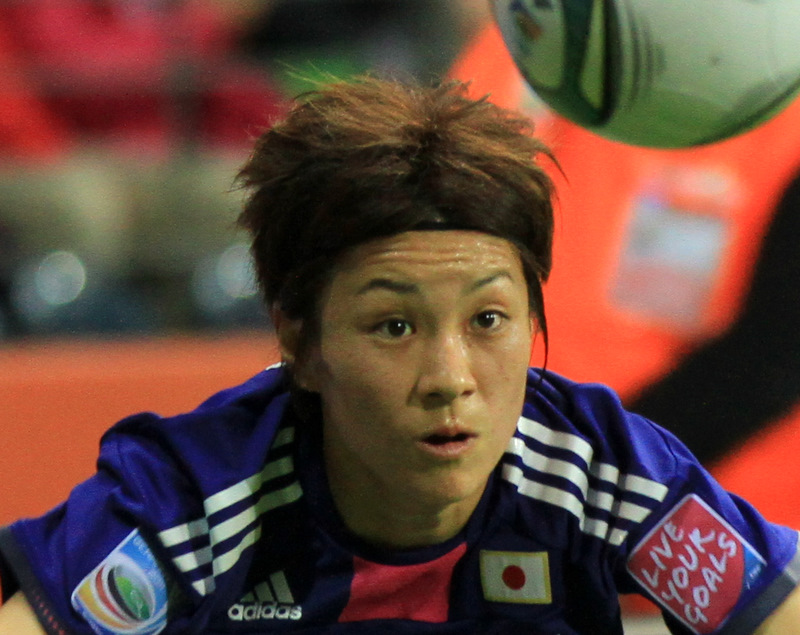 Yukari Kinga playing for Japan in the 2011 FIFA Women's World Cup